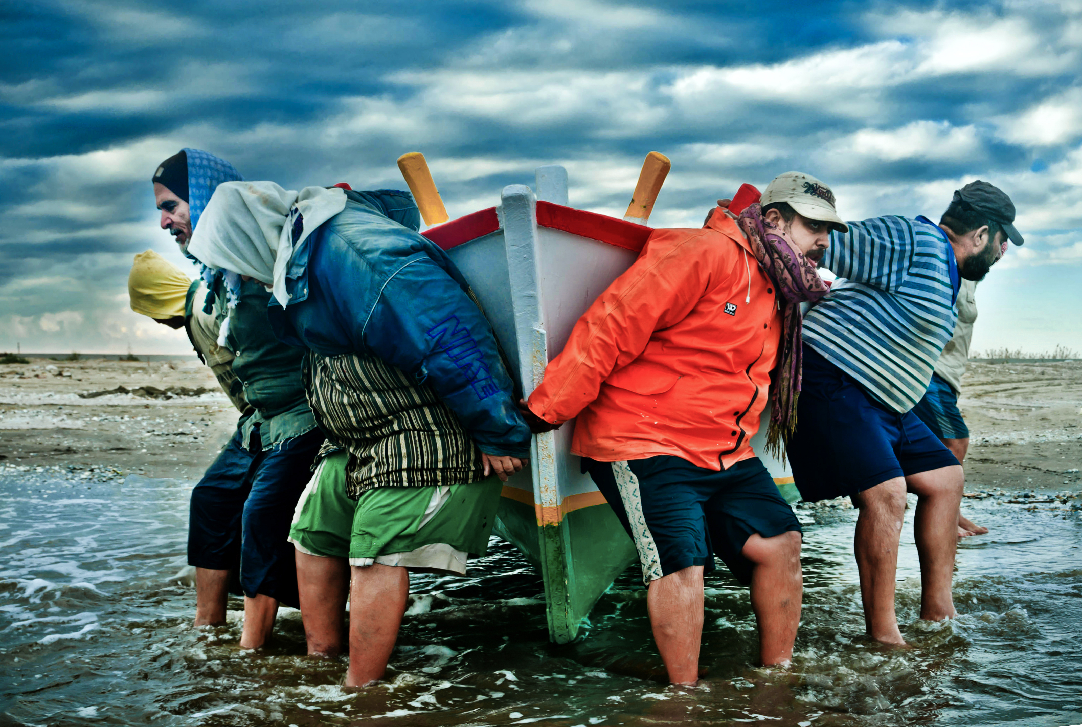 This is an image of "African people at work" from Egypt